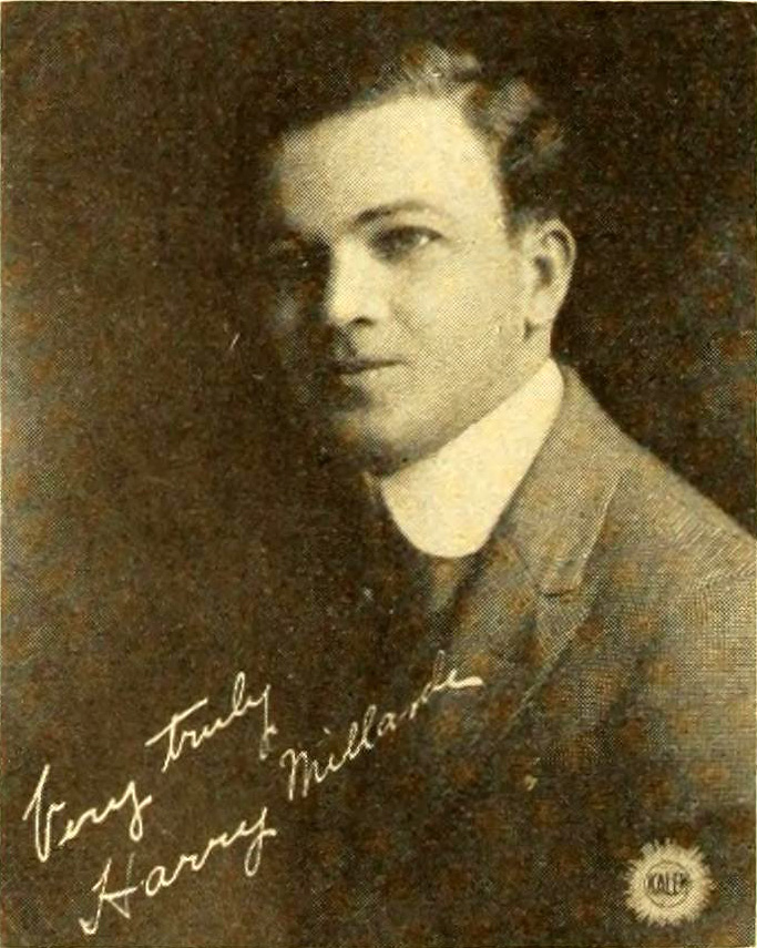 Advertisement in The Moving Picture World with Harry F. Millarde.